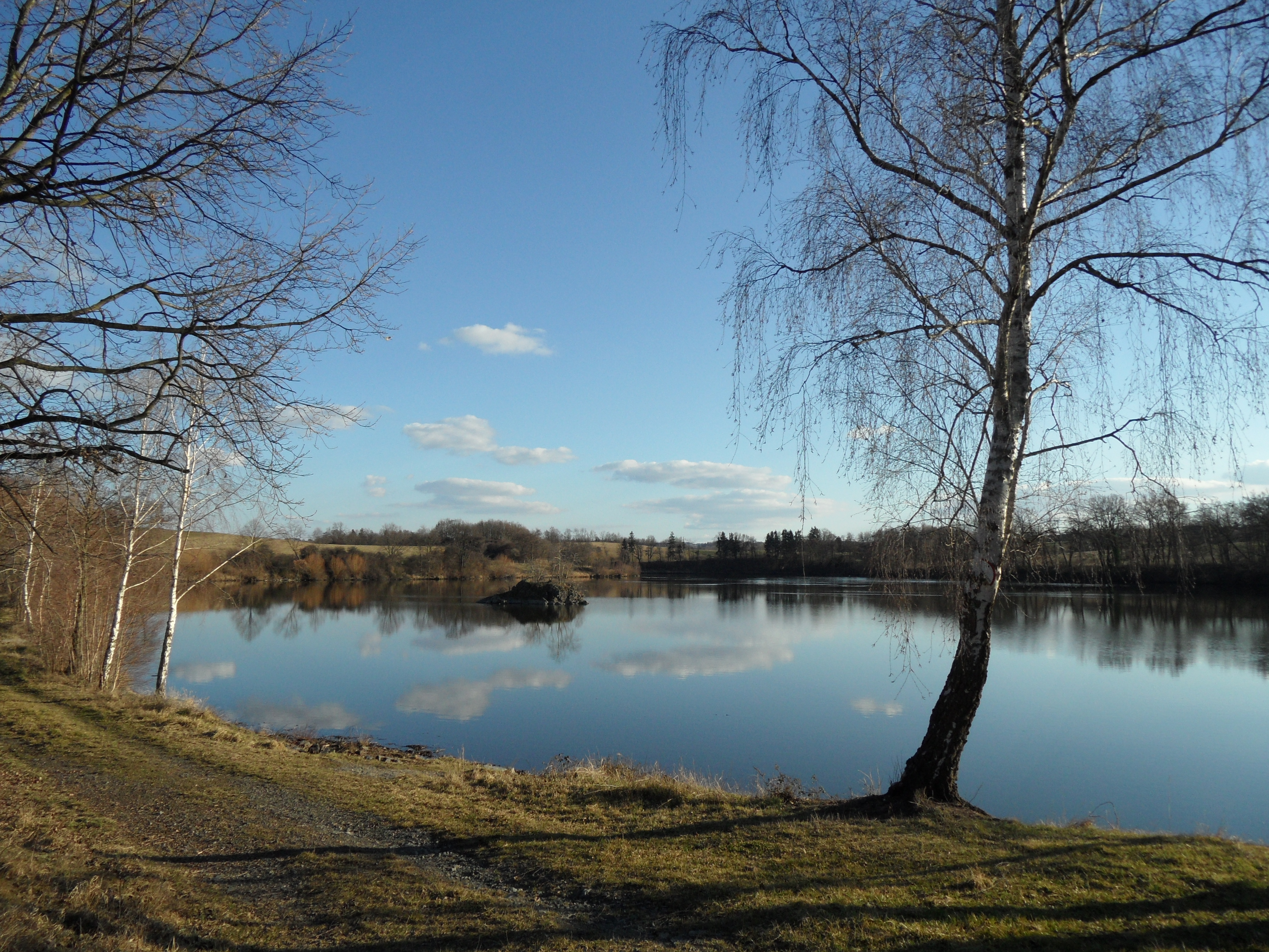 Jezuitský rybník A. East Side (View from Dam), Havlíčkův Brod District, the Czech Republic.